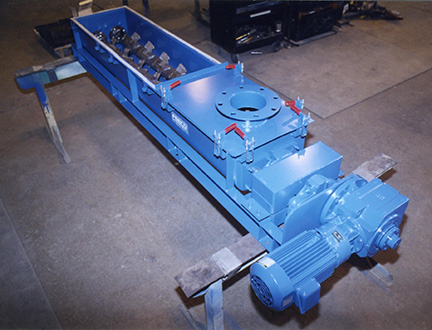 This image shows a paddle mixer engineered and manufactured by FEECO International: Green Bay, WI.